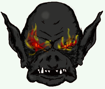 A digital drawing of the fictional goblin god, Maglubiyet. Done with Adobe Photoshop